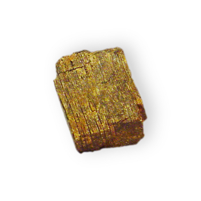 These mineral images are free to use how you wish.